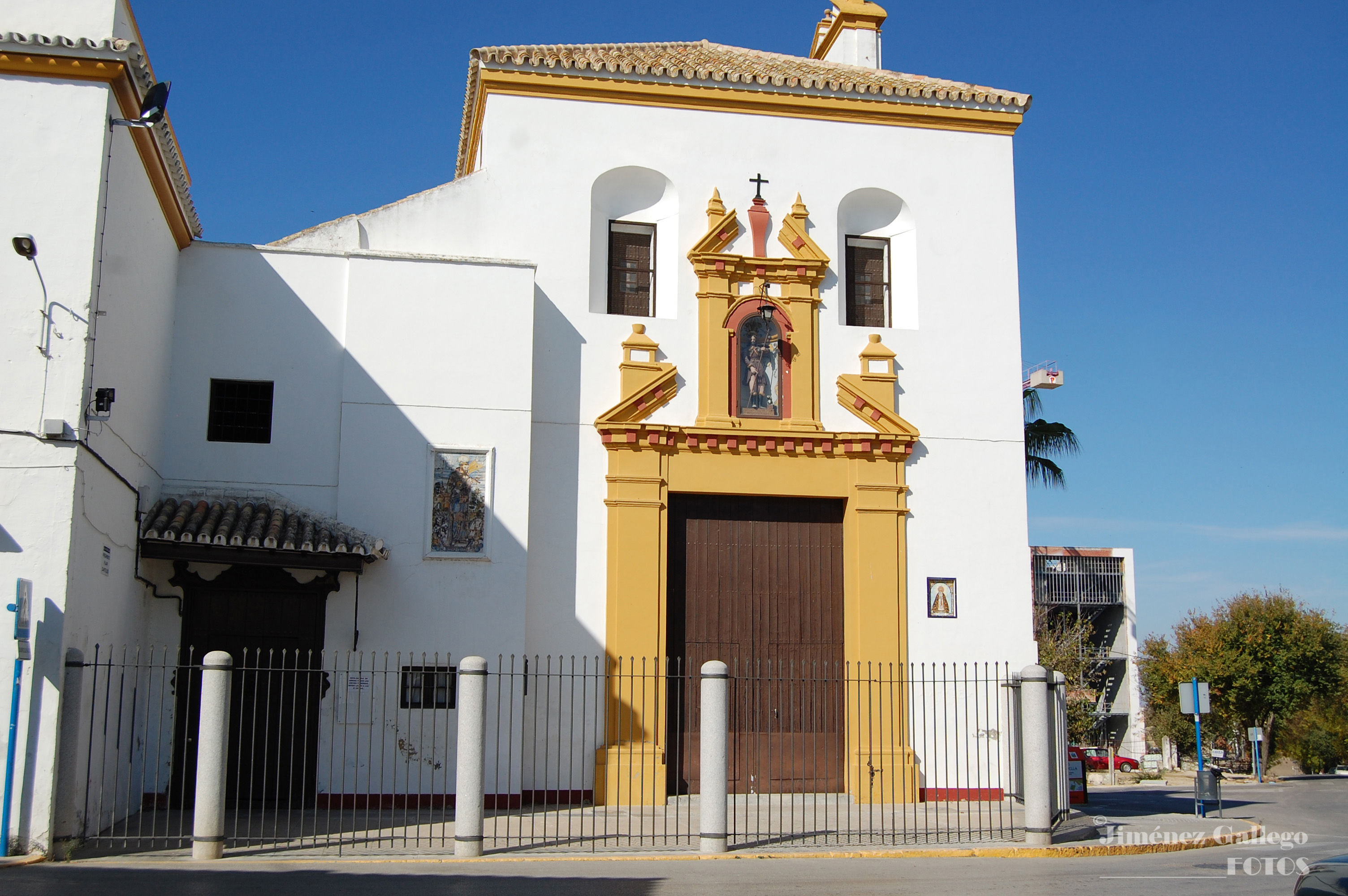 Iglesia Ex-Convento de San Roque